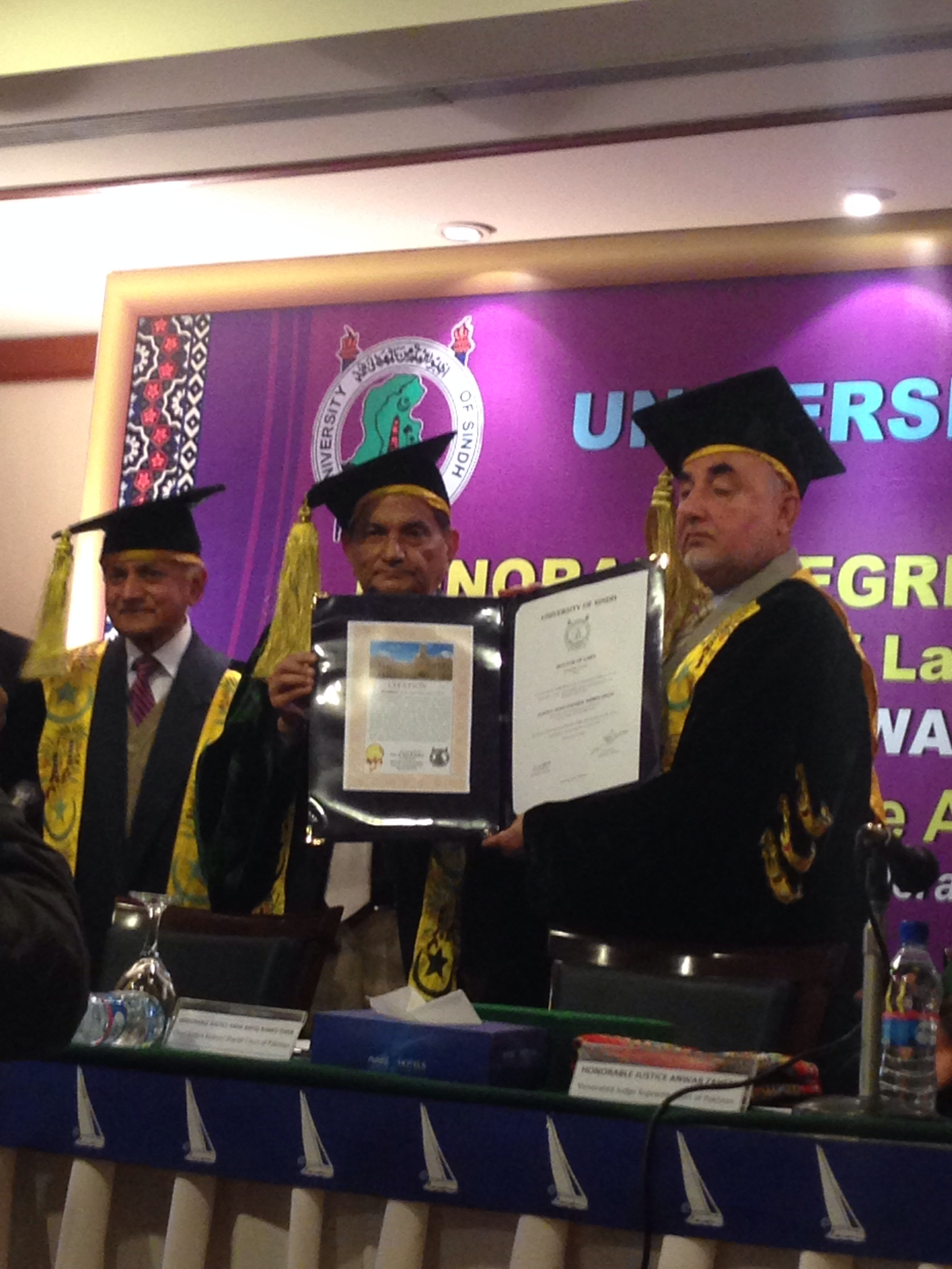 Justice Dr Agha Rafiq Ahmed Khan awarded with Honoris Causa Doctor of Law Degree by University of Sindh , (one of the oldest education institutions in a Pakistan) on 26 th January 2014 at Karachi . He has made History as he is the only Judge in Pakistan to receive this degree .